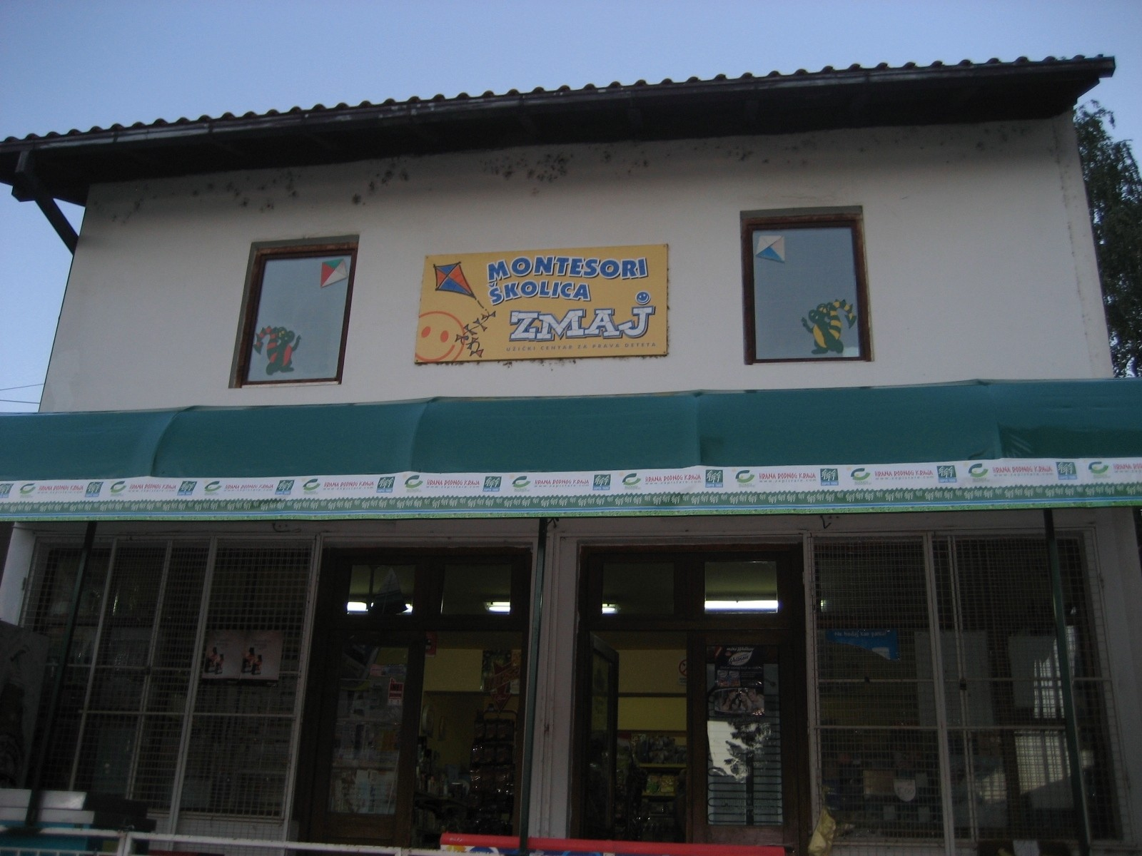 Montessori kindergarten in Užice, Serbia